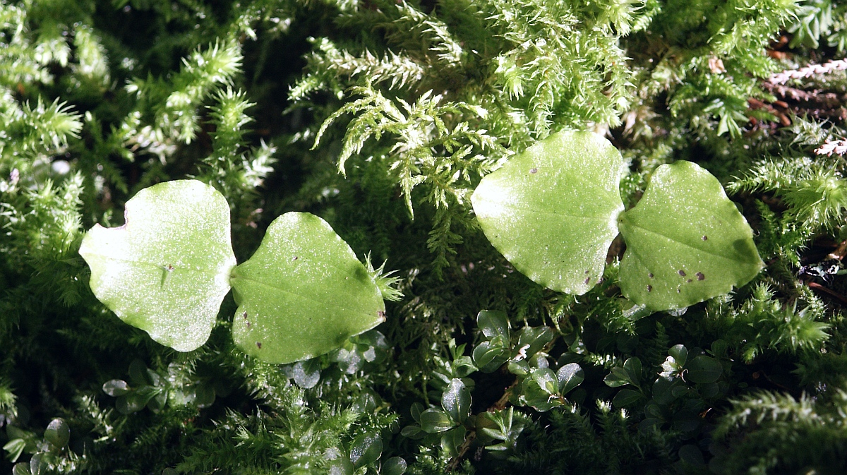 Listera cordata, non-flowering plants, Nature reserve Vilsalpsee, Austria